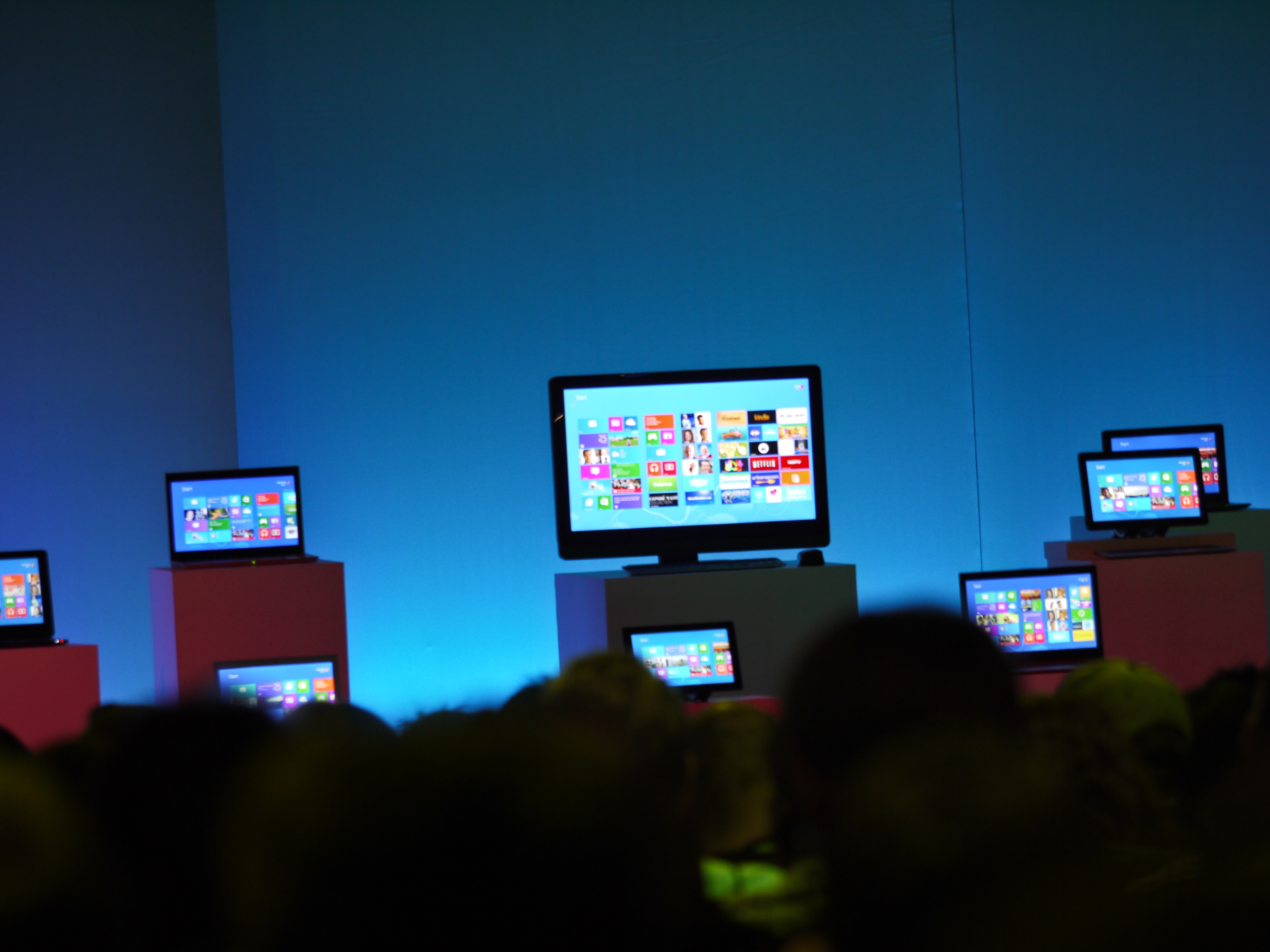 These are some of the machines showcased onstage during the Windows 8 launch event that happened on October 25, 2012 at Pier 57 in New York.